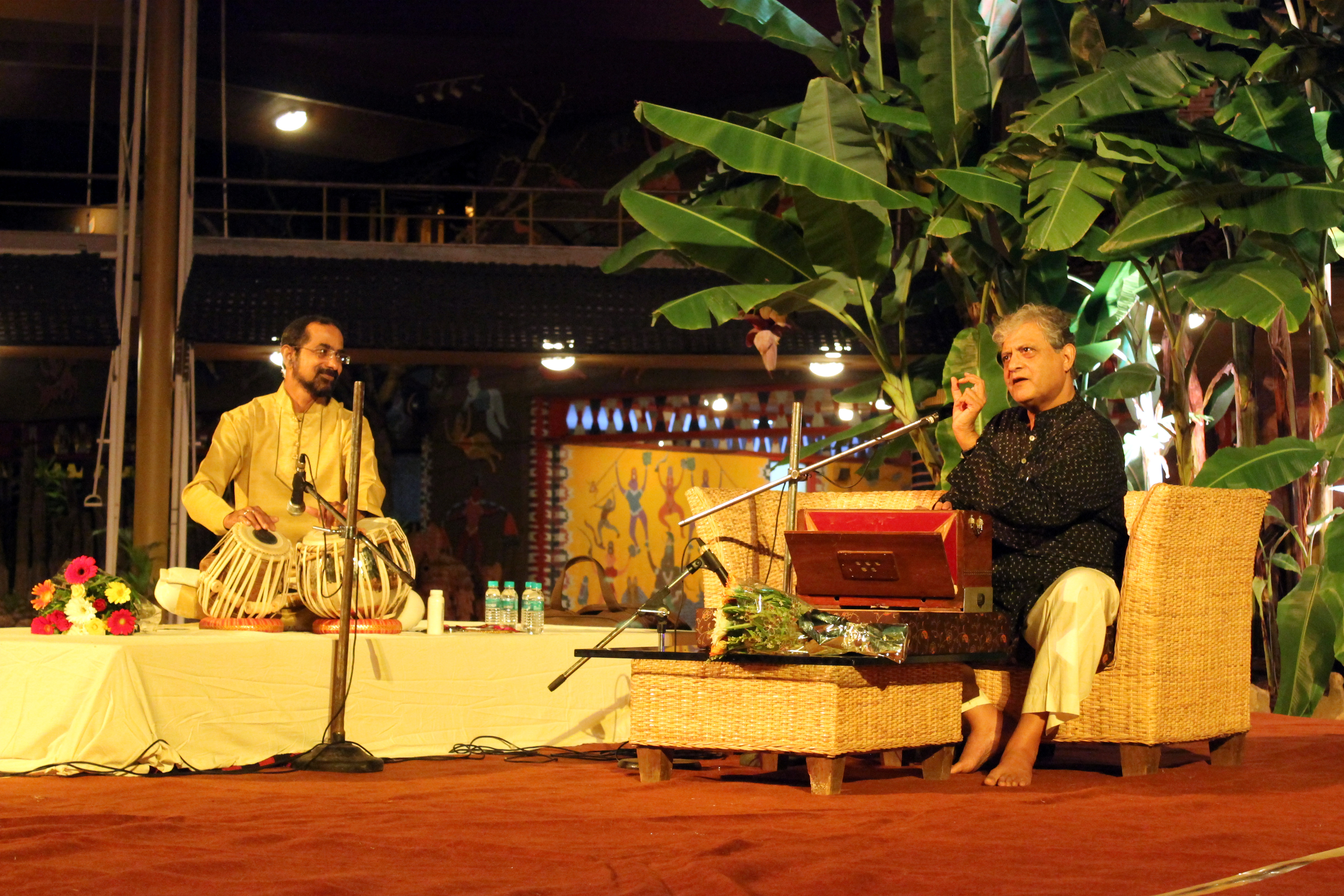 Performing at Madhyapradesh Tribal Museum Bhopal September 2015